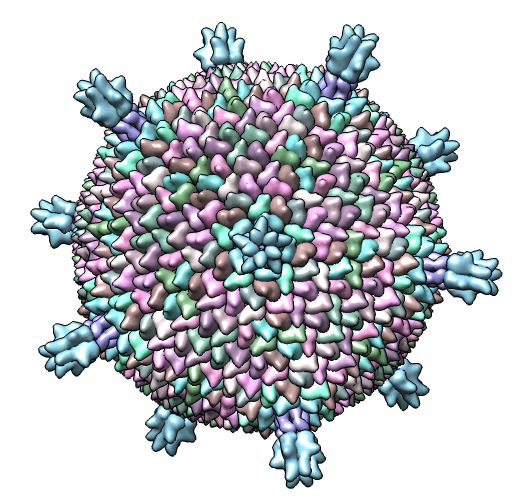 4.5 Å structure of Sulfolobus Turreted Icosahedral Virus determined by cryoEM.